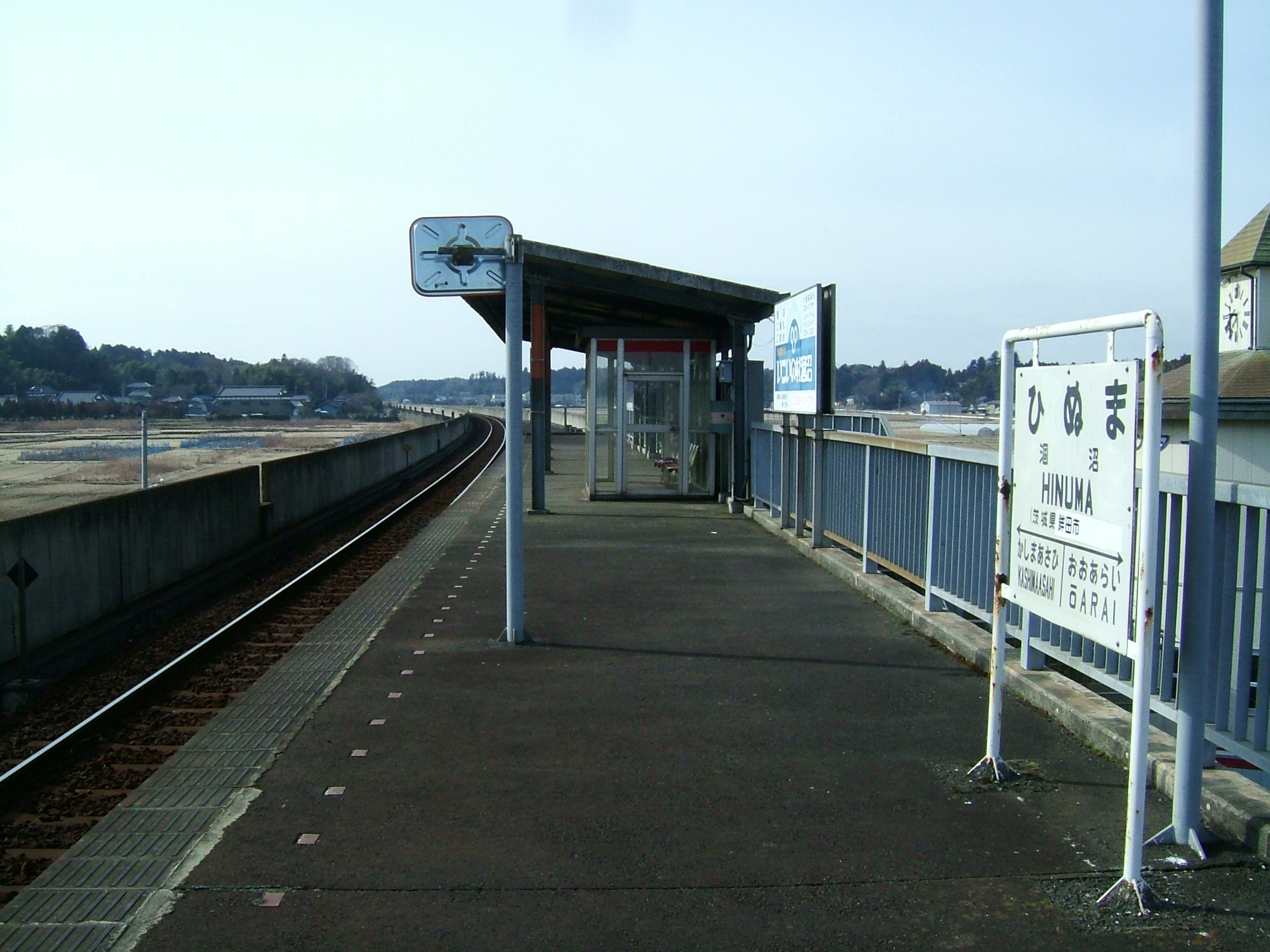 Hinuma Station platform (Kashima Seaside Railway Oarai-Kashima Line)